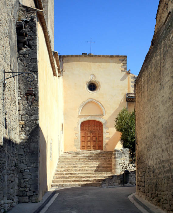 the village of Caumont-sur-Durance (Vaucluse, France)